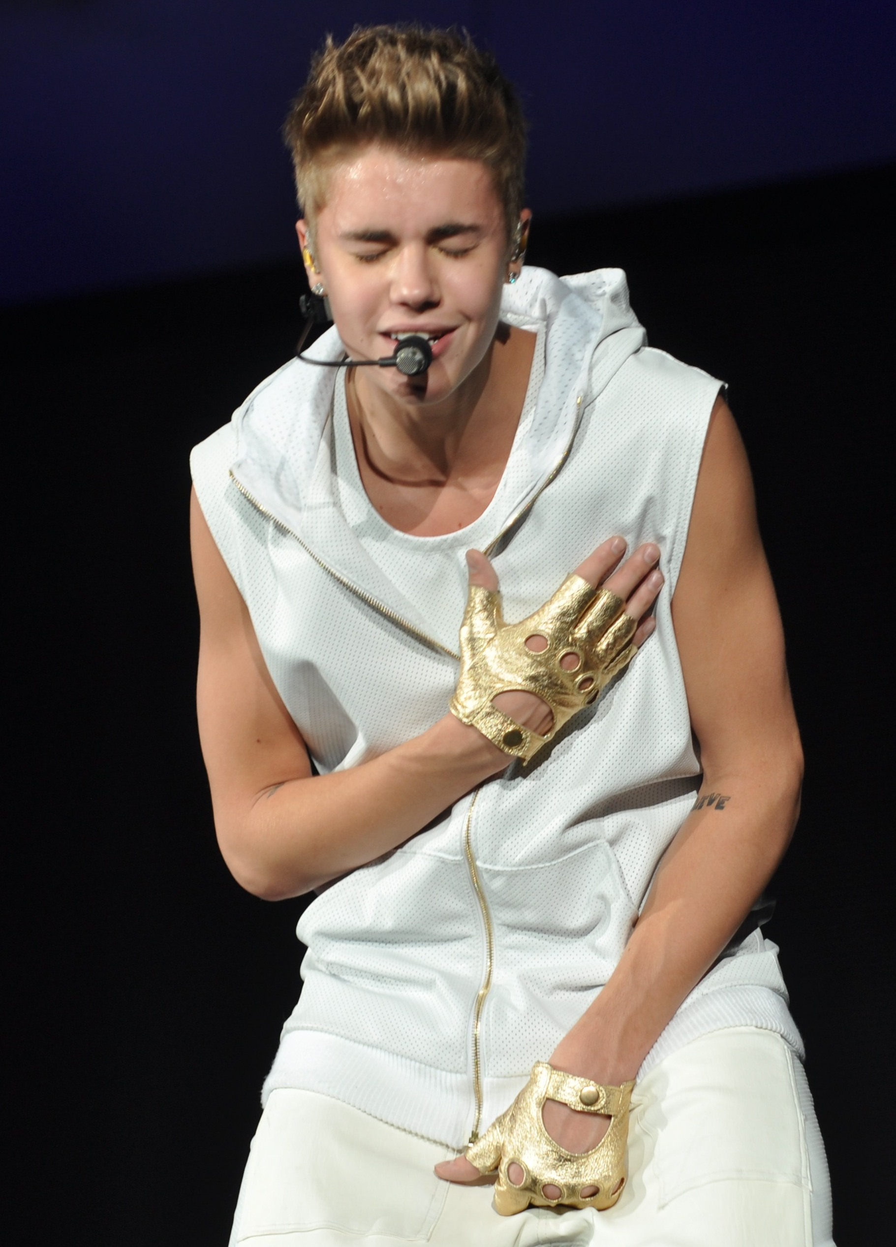 Justin Bieber performing on "Believe Tour" in October 20, 2012.